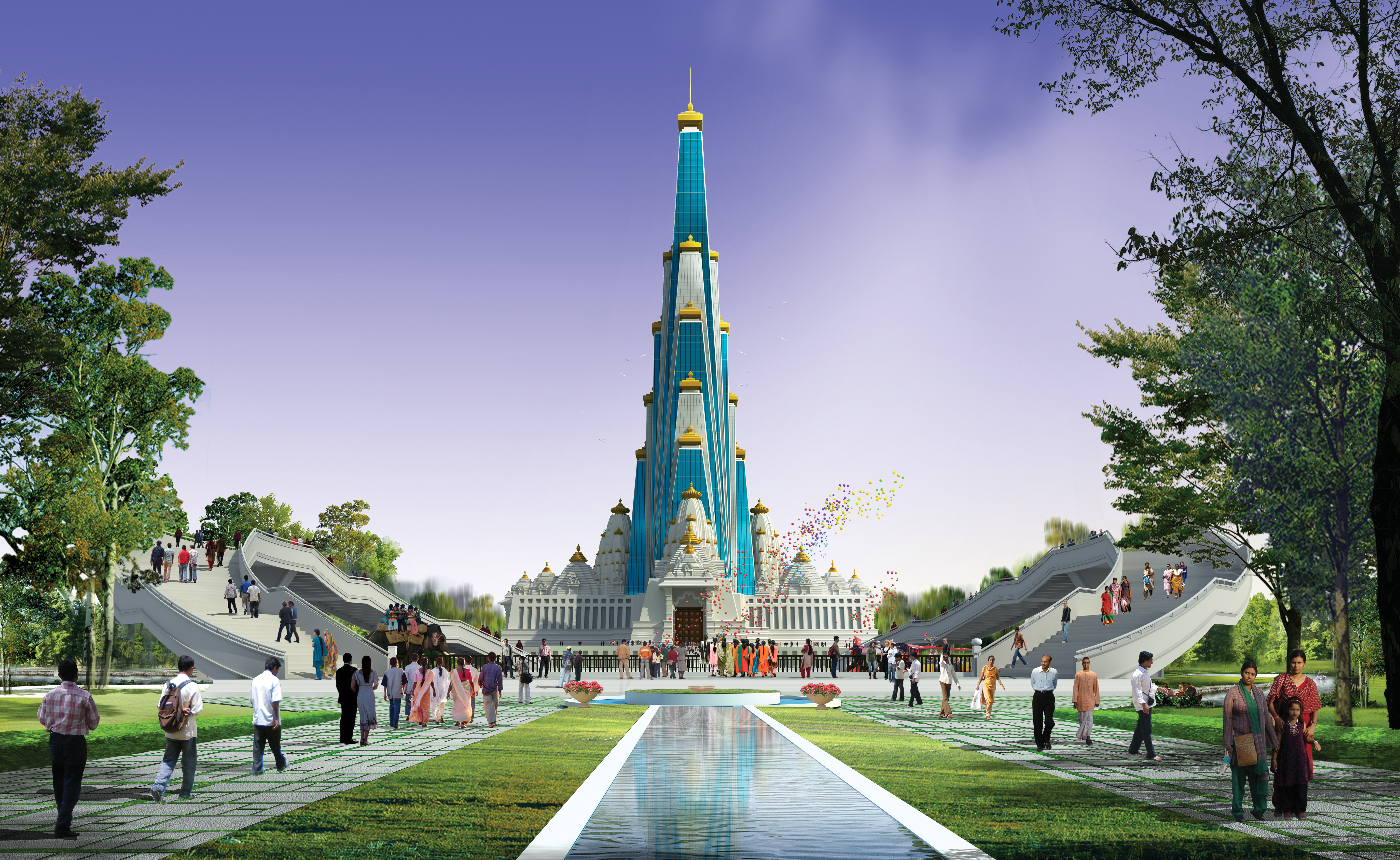 Vrindavan Chandrodaya Temple Render - Front View